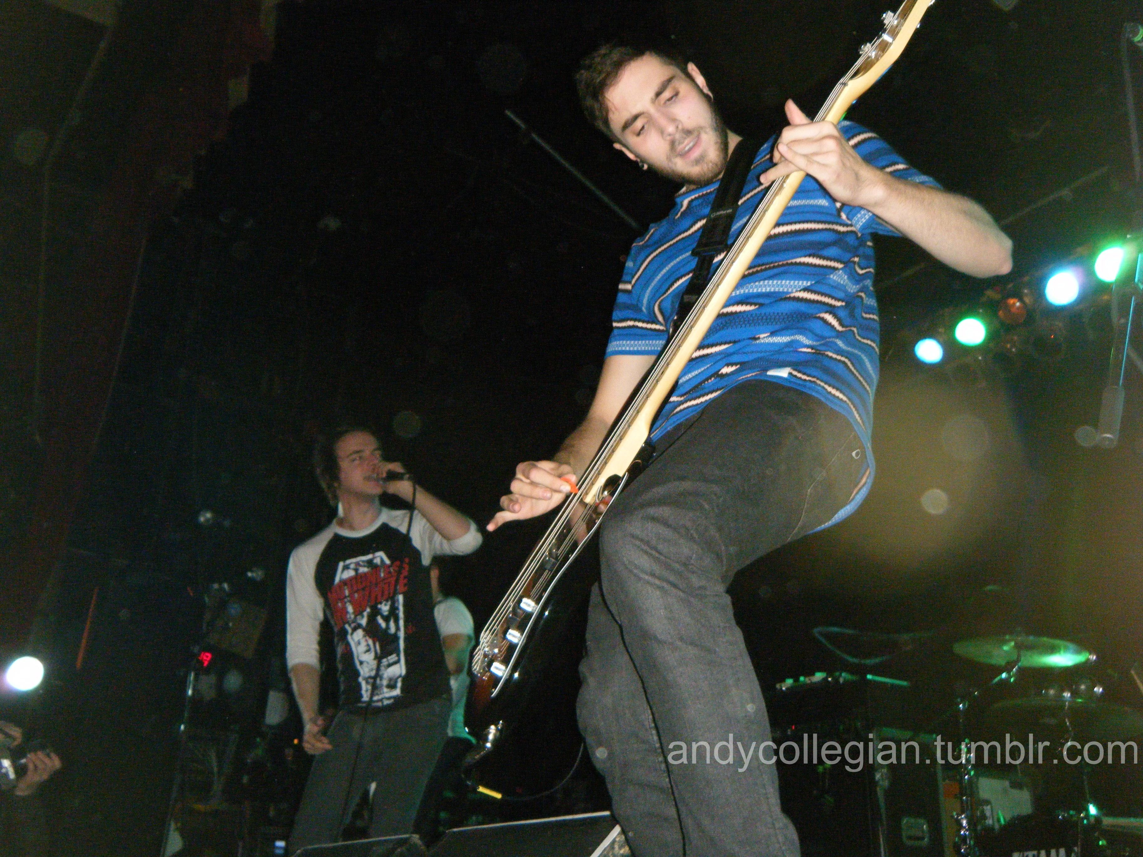 Chunk! No, Captain Chunk! Performing live in the United States on 25 May 2012. Left to right: vocalist Bertrand Ponce and bassist Mathias Rigal.